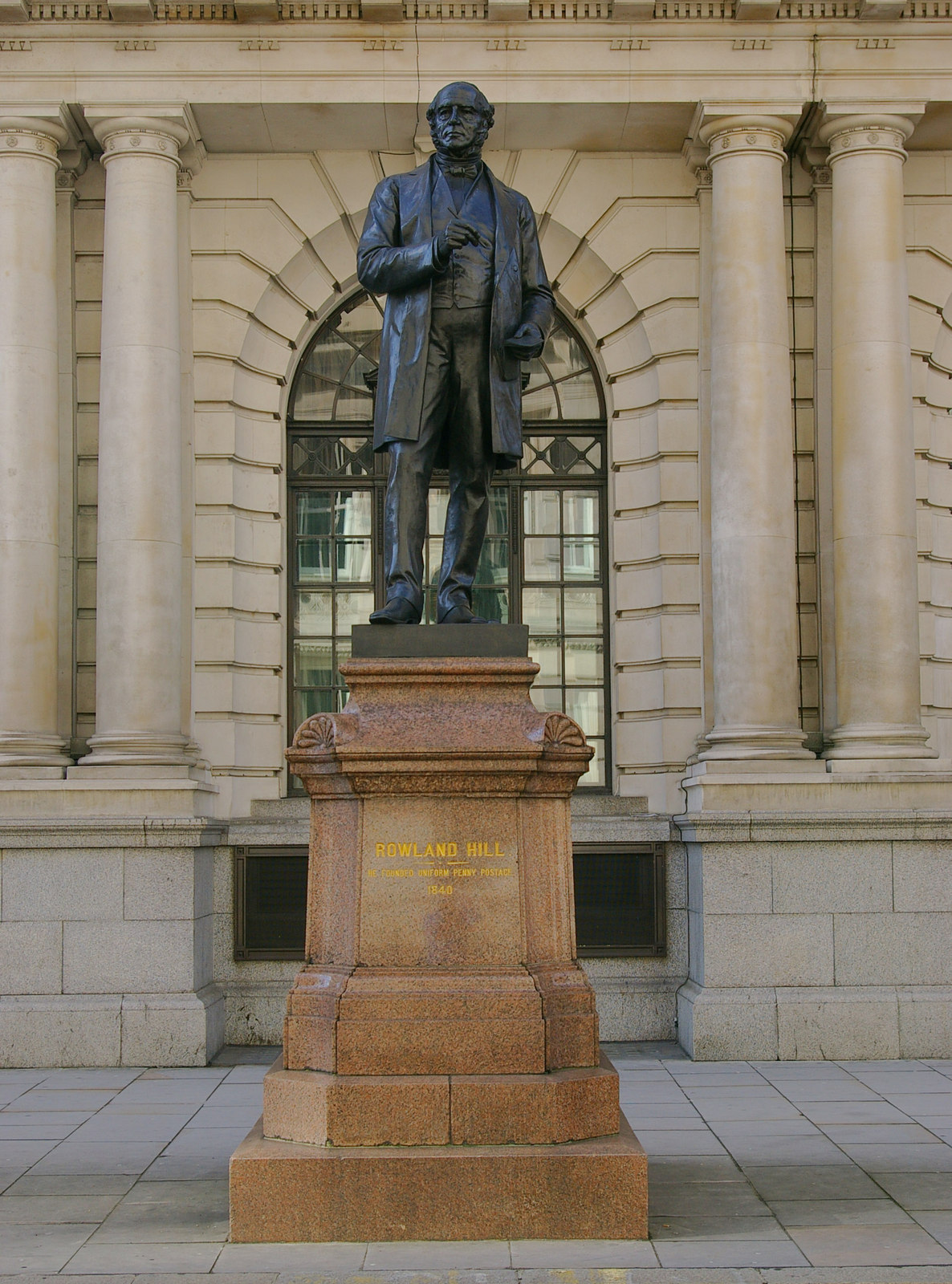 Statue of Rowland Hill Statue of Sir Rowland Hill (1795-1879), postal reformer, outside the former General Post Office (King Edward Building), City of London